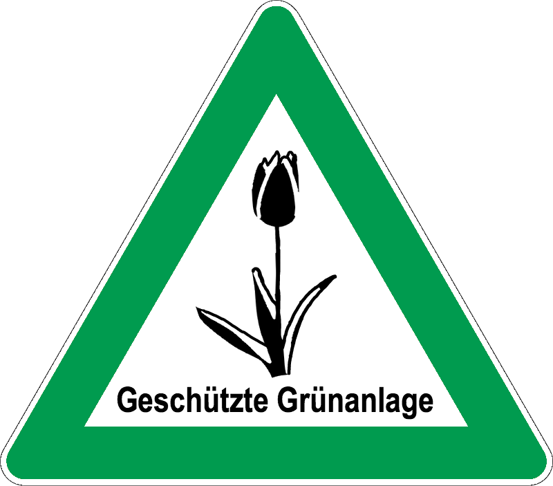 Protected green space 1994